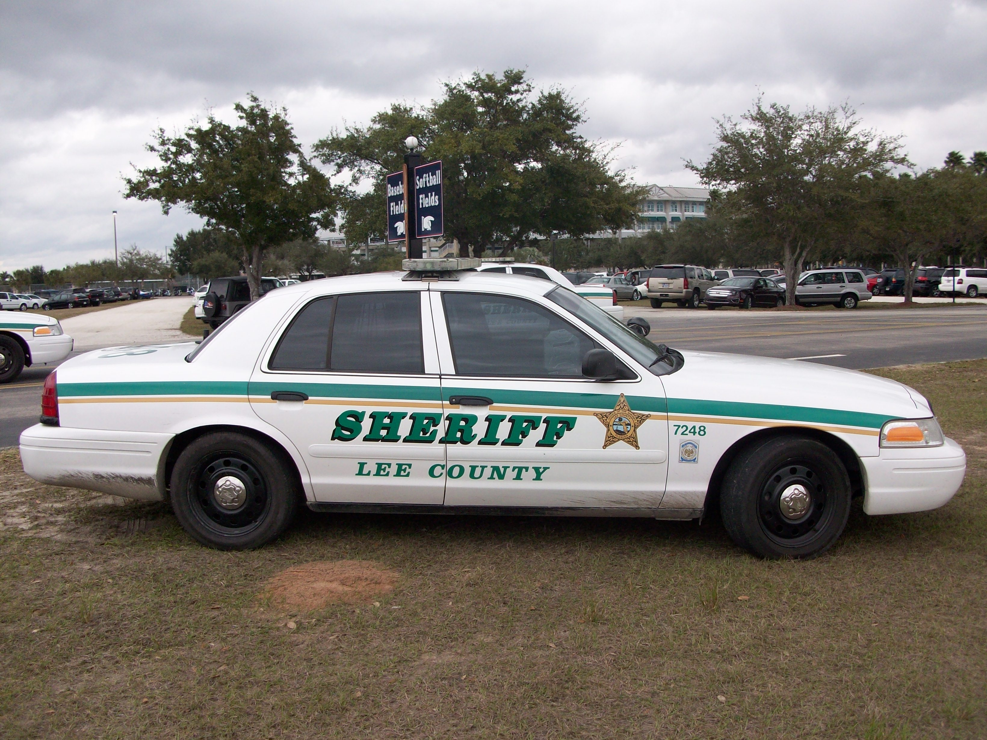 Lee County (FL) Sheriff's Office patrol car